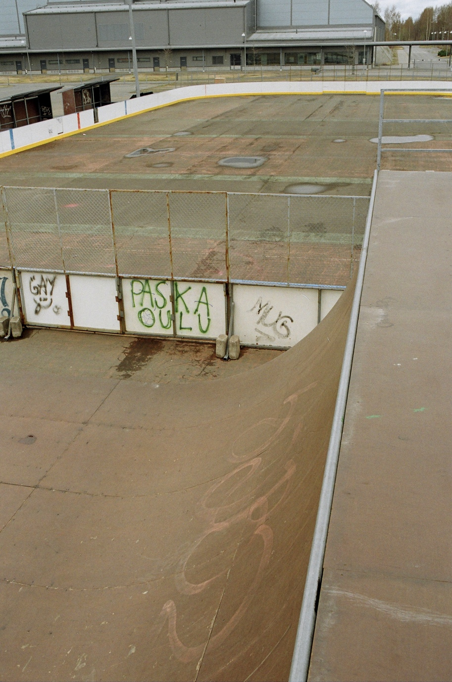 A vert ramp in Nuottasaari, Oulu, Finland.